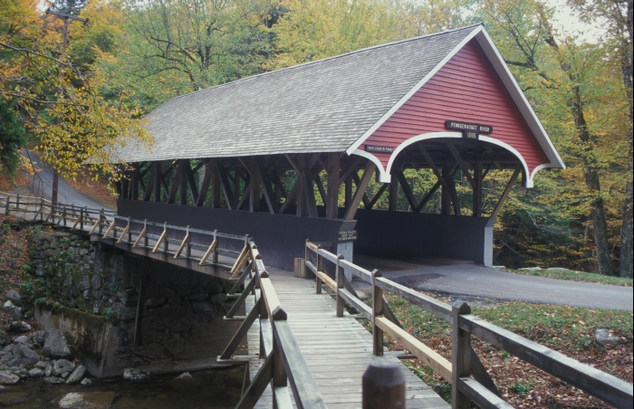 Pemigewassett covered bridge in Franconia Notch State Park, New Hampshire, USA